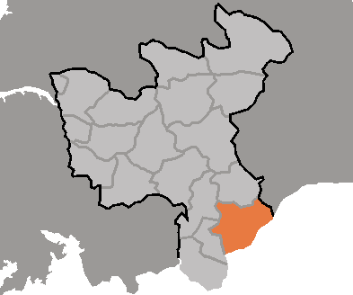 Map of Jangpung, Hwanghae-pukto, DPRK, 2006